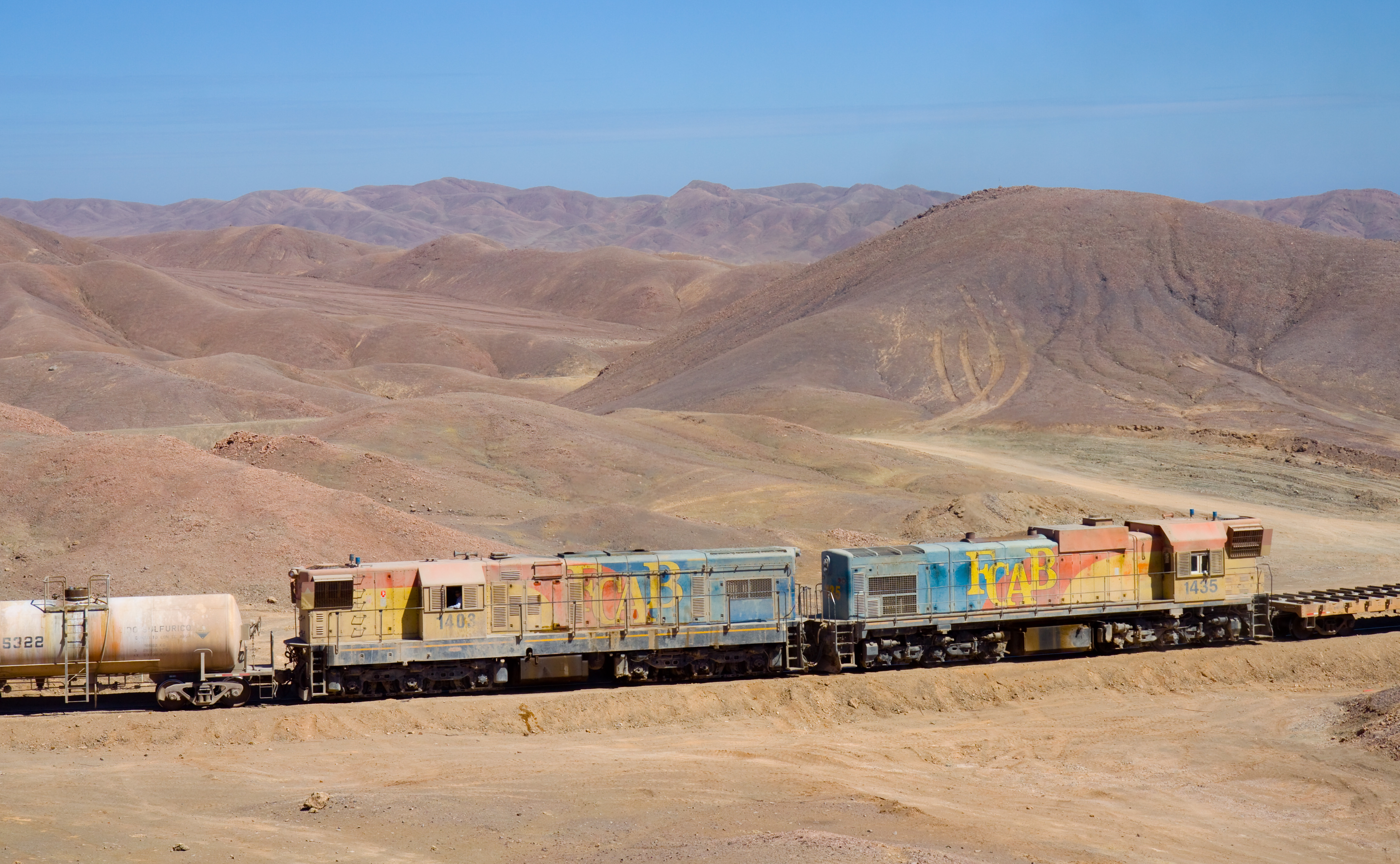 FCAB EMD GR12U 1403 and EMD/Clyde G22 1435 are working hard as mid-helpers to get a long rake of loaded sulfuric acid tank cars and empty flatcars up cumbre pass. Between Pampa and Cumbre, Chile.